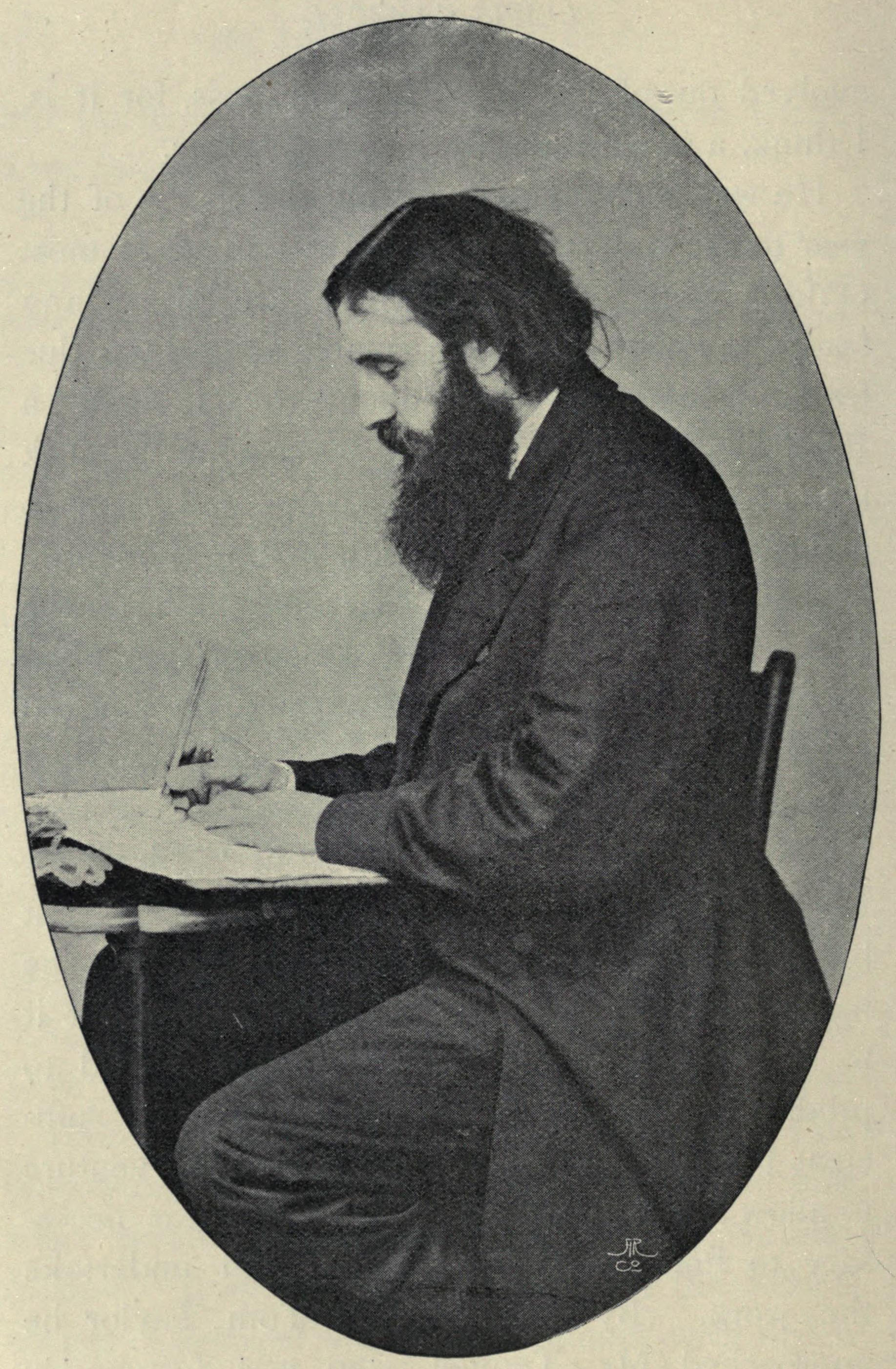 Portrait of George MacDonald